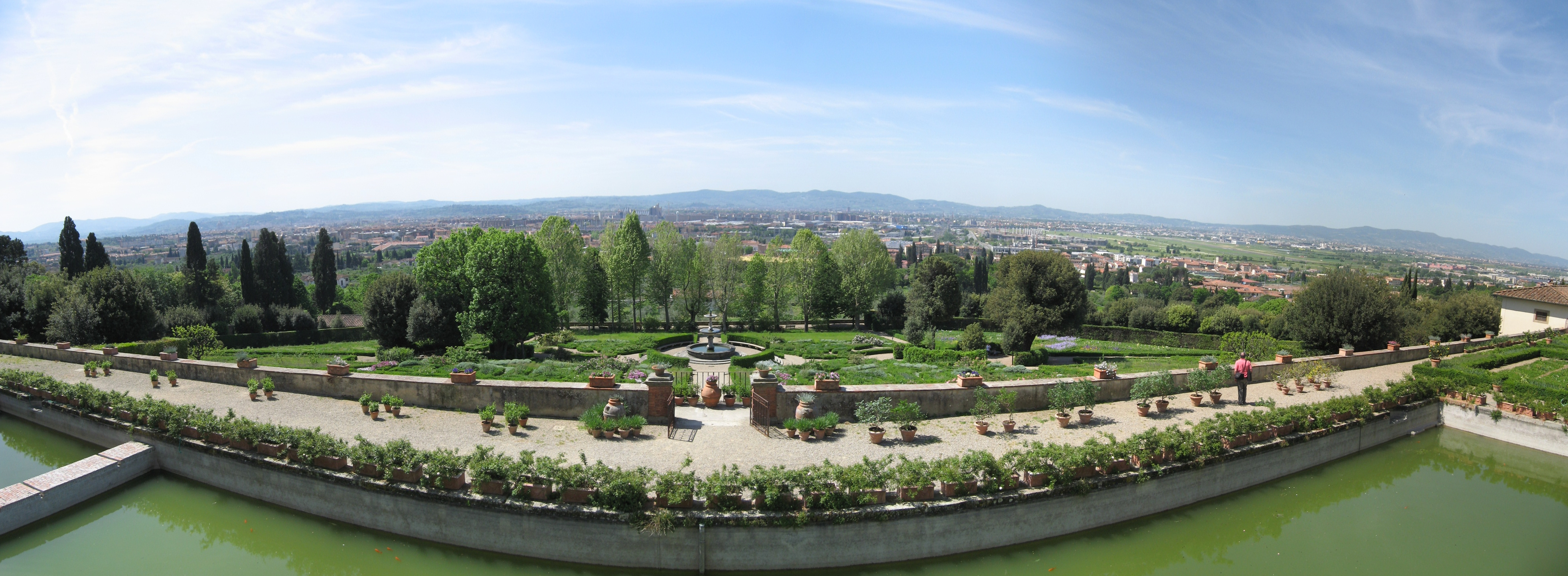 Gardens of the Villa la Petraia with a view on Florence.